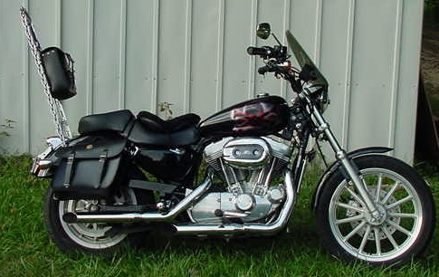 XL Series III leather throw over saddlebags installed on 2005 Harley Davidson Sportster